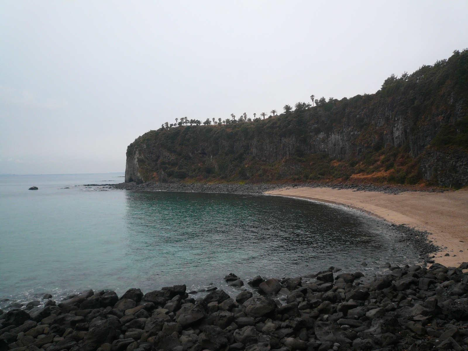 Jeju Island, South Korea